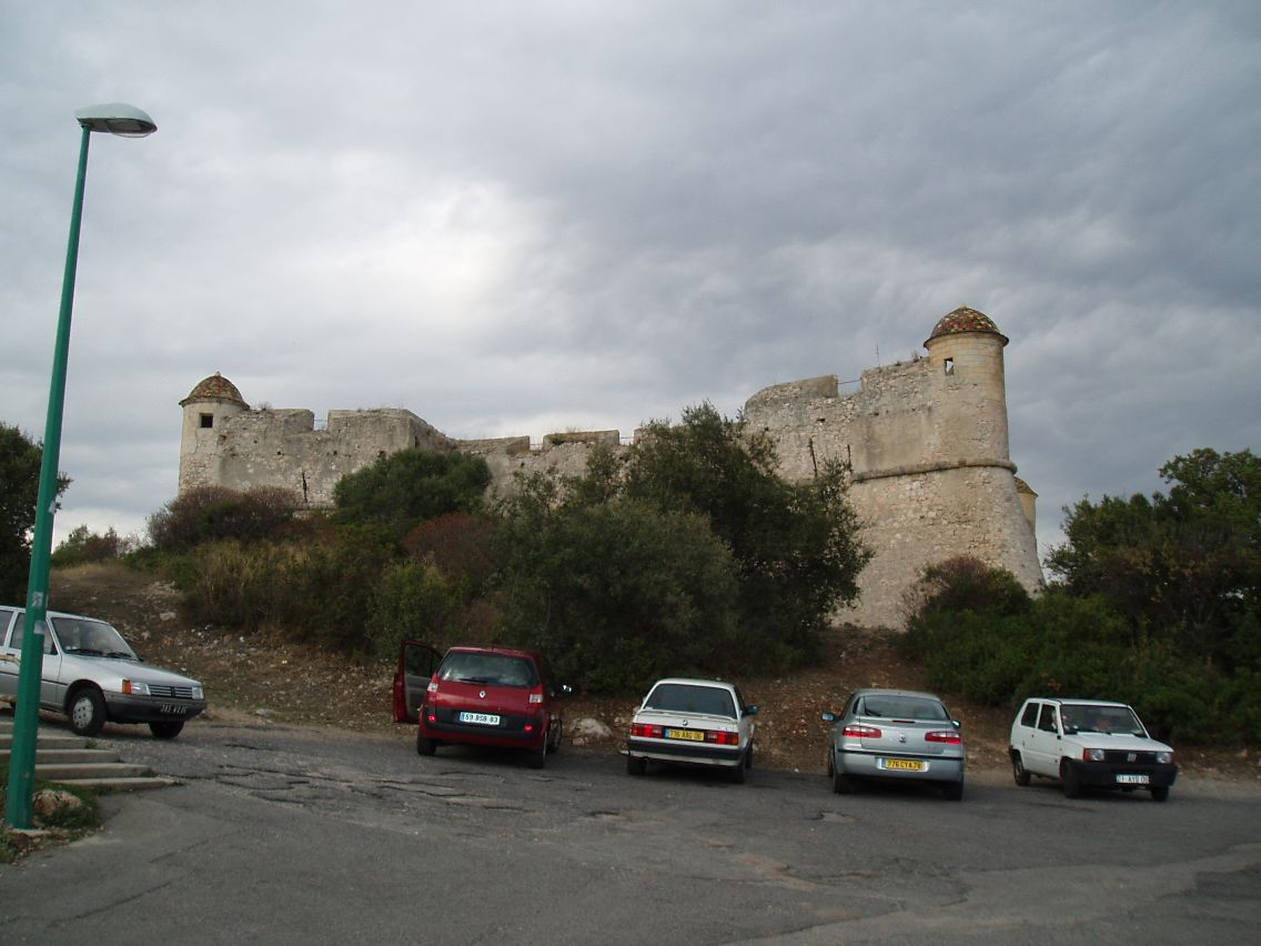 The Fort Alban on Mont Alban east of Nice.